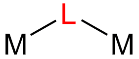 schematic of a bridging ligand